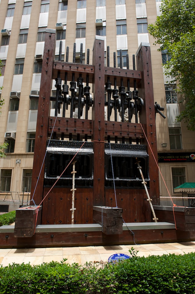 This machine was used in gold mining around Johannesburg in the XIX century.